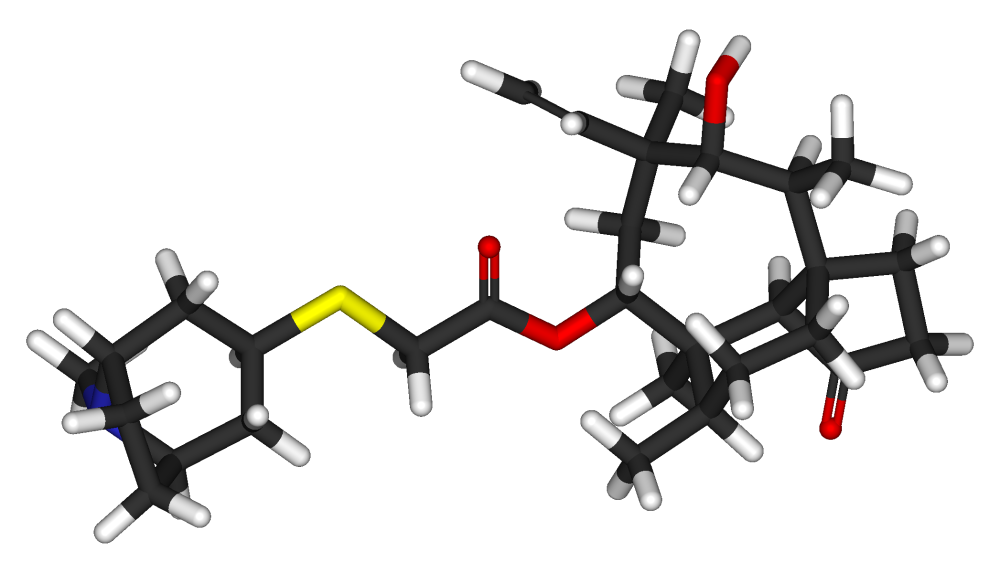 Stick model of retapamulin. Created using Accelrys DS Visualizer Pro 1.6 and GIMP.